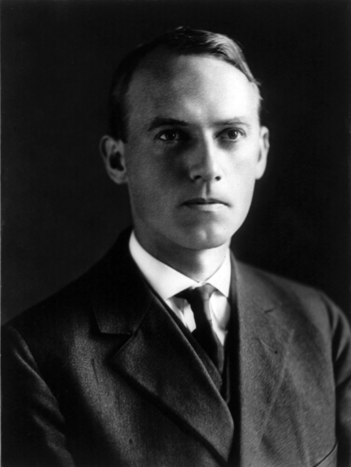 Scott Nearing, American socialist academic and writer